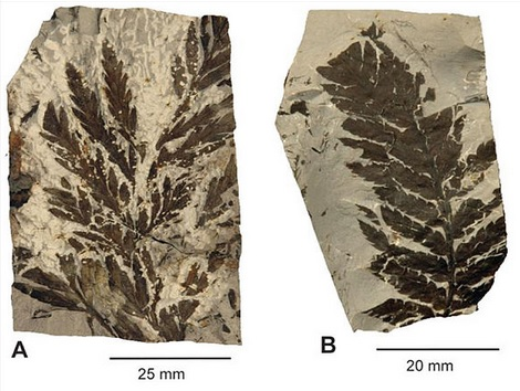 Carbonized imprints of the fern Gleichenia, transition Lower-Upper Cretaceous, Wayan Formation, Idaho, United States.